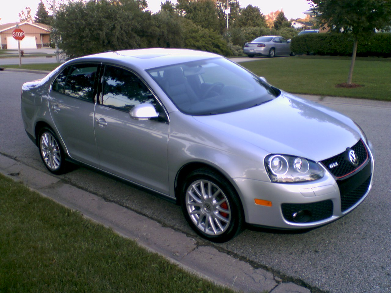 2006 Volkswagen Jetta GLI, with "North American Package #2", photographed in the United States